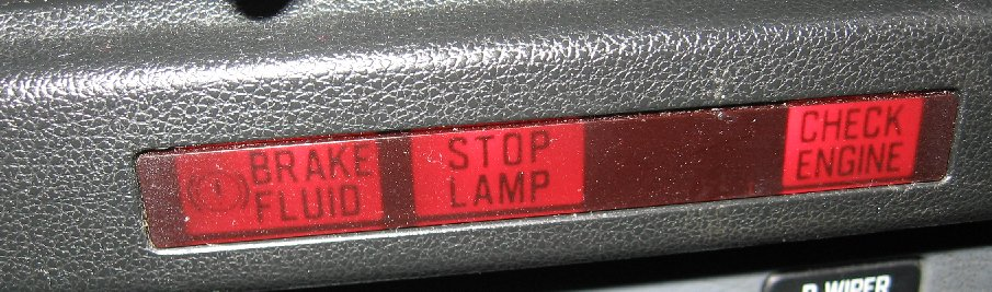 Idiot lights in a '88 Subaru GL. Fairly typical, although I don't think 'Stop Lamp' is a very common one. It is supposed to light when there is a failure of one or more of the stop lamps, obviously.